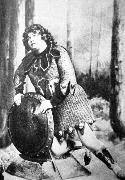 Antonín Dvořák - Armida - Ruzena Maturova as Armida